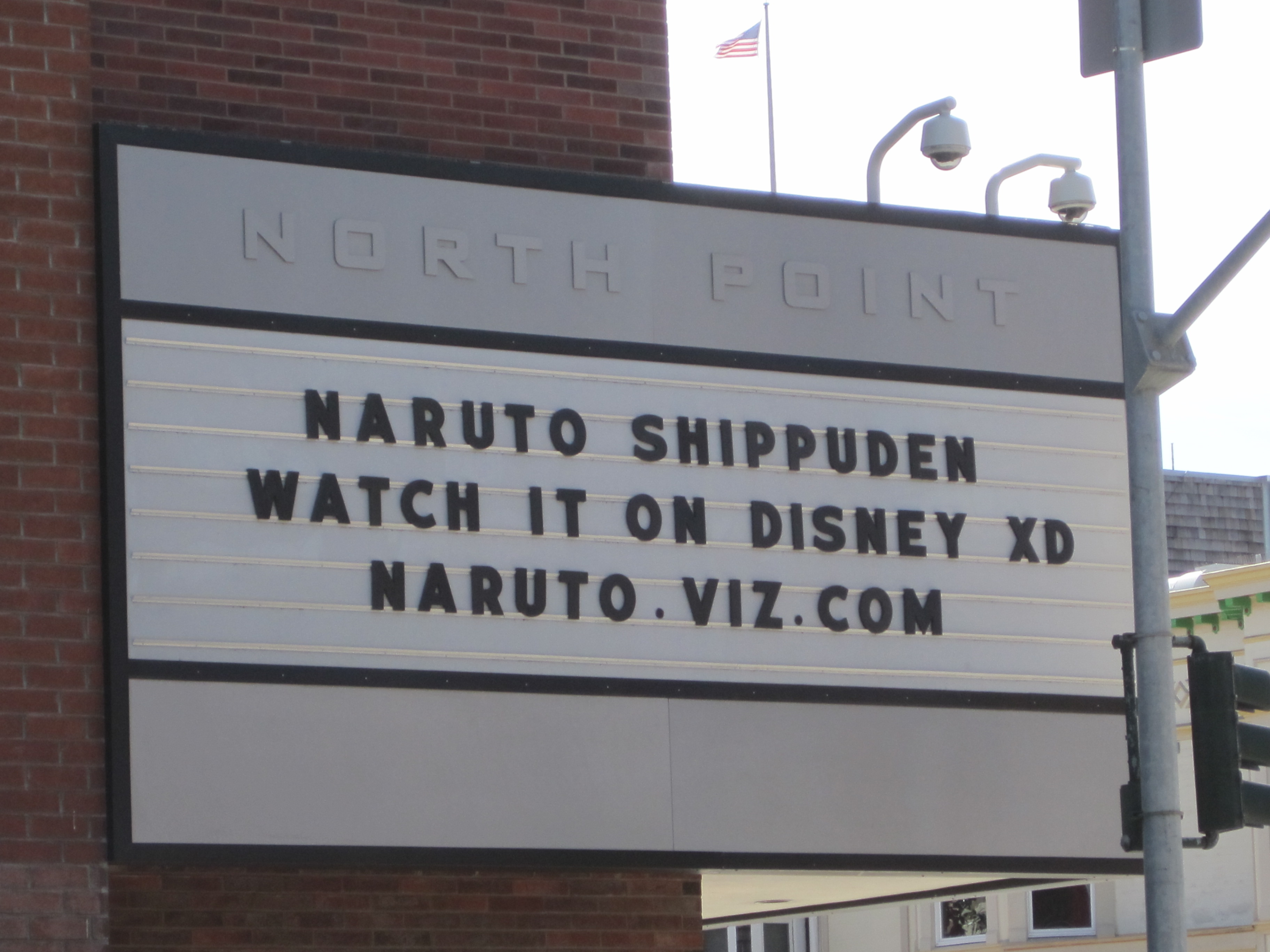 A marquee promoting the airing of Naruto Shippuden on Disney XD at the Viz Media headquarters in San Francisco, California.